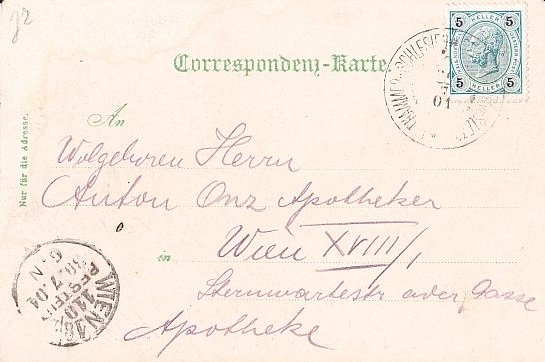 Postcard with a 5 heller stamp, bilingual cancelled ALTHAMMER IN SCHLESIEN - STARE HAMRY W SLEZCKU on 29-7-1901 (Austrian Silesia Teschen district), arrival stamp in WIEN 18/1 110 (Währing)